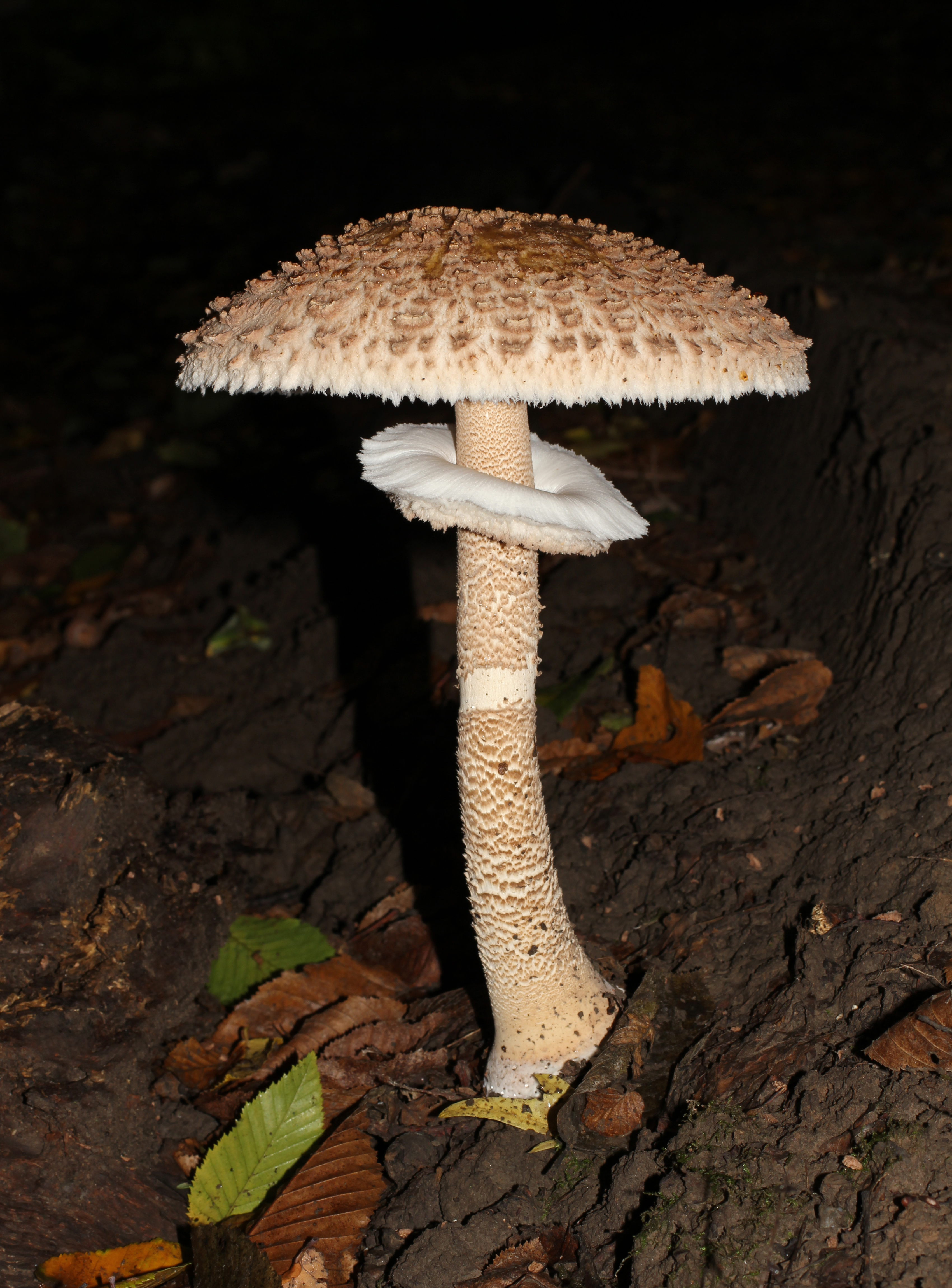 Parasol mushroom, Macrolepiota procera, Ukraine.